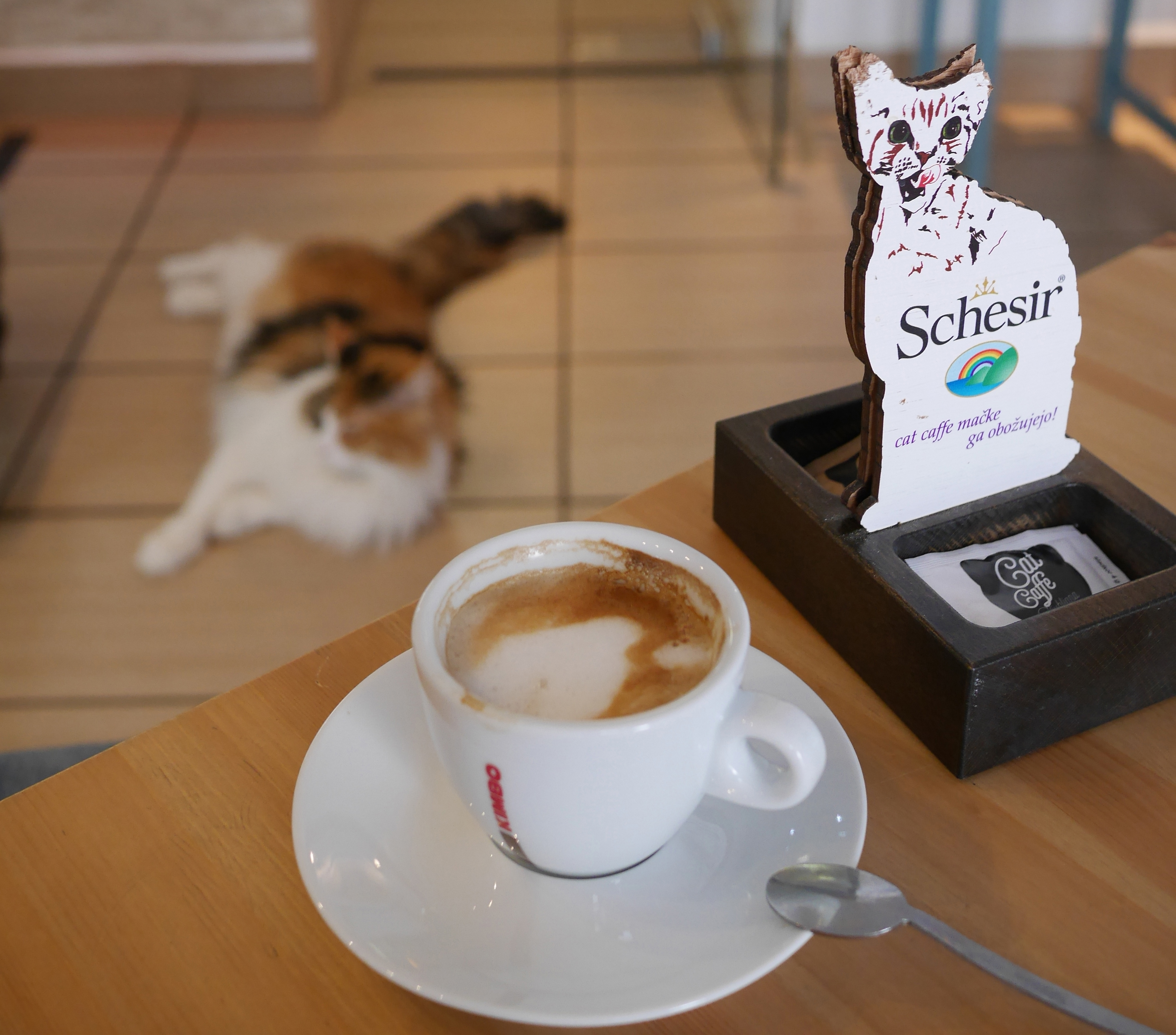 Cat Caffe in Ljubljana, Slovenia